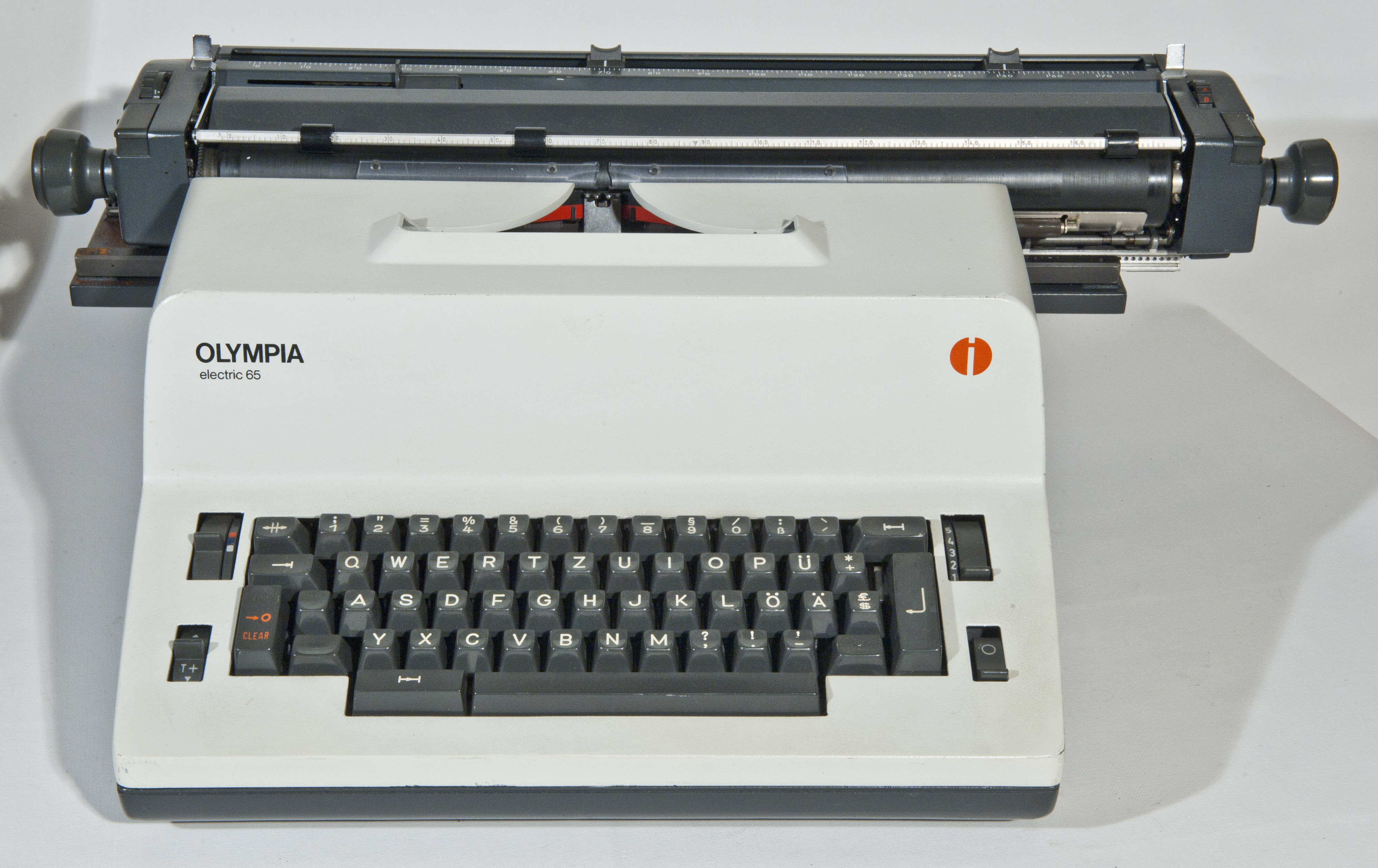 Typewriter by Olympia (E65)